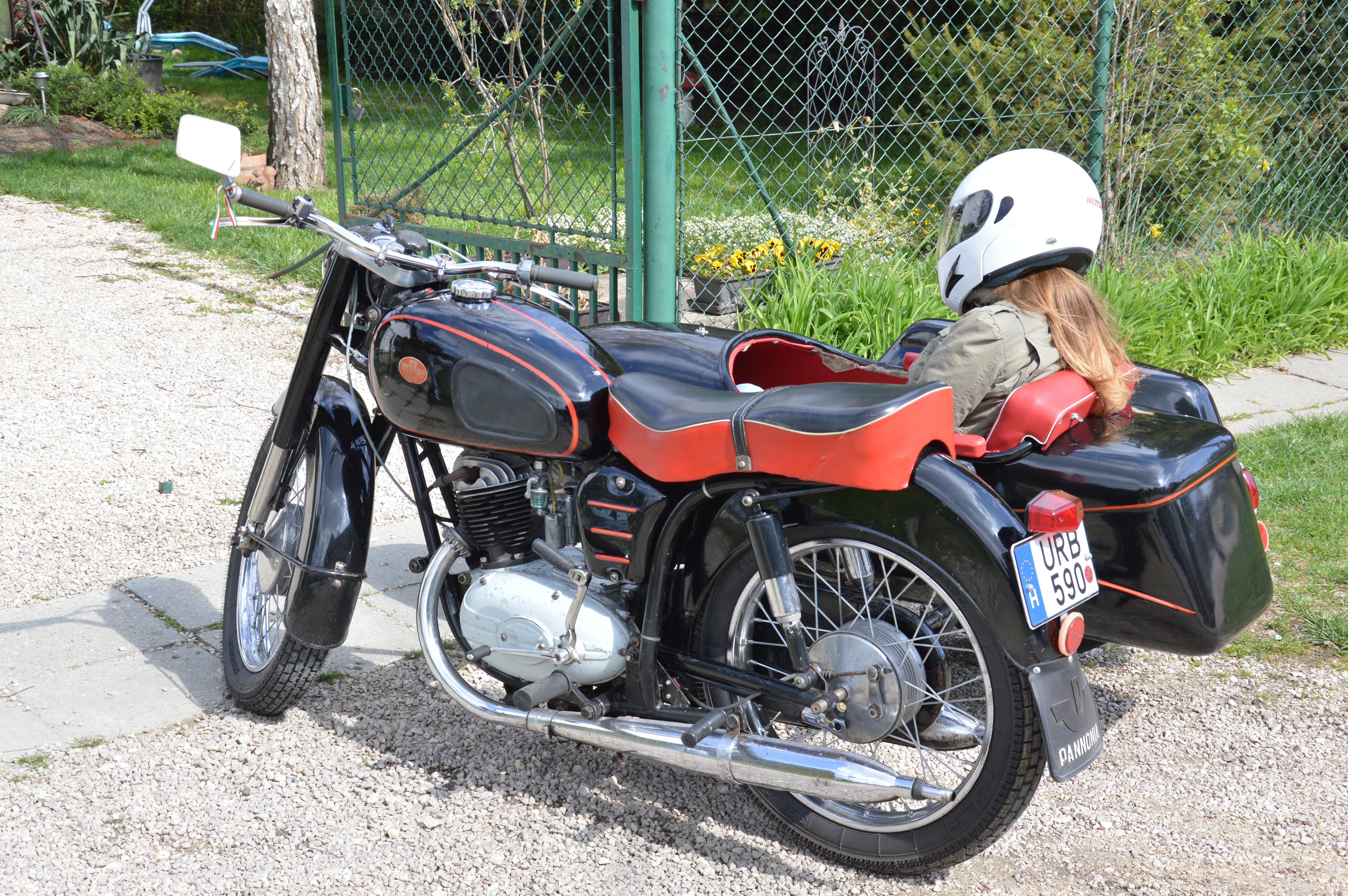 Pannonia T5 motorcycle with sidecar in Velence, Hungary.